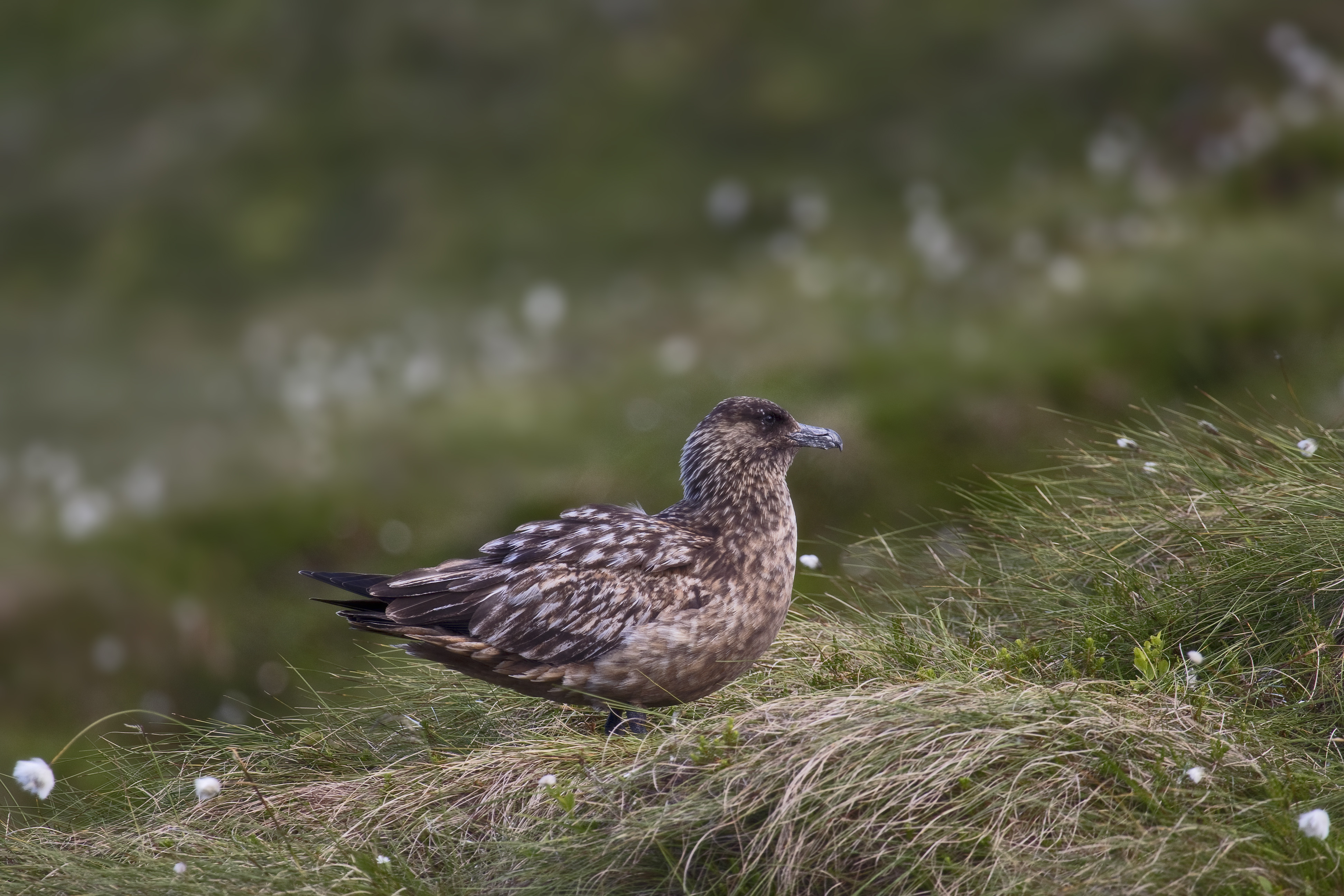 Great Skua